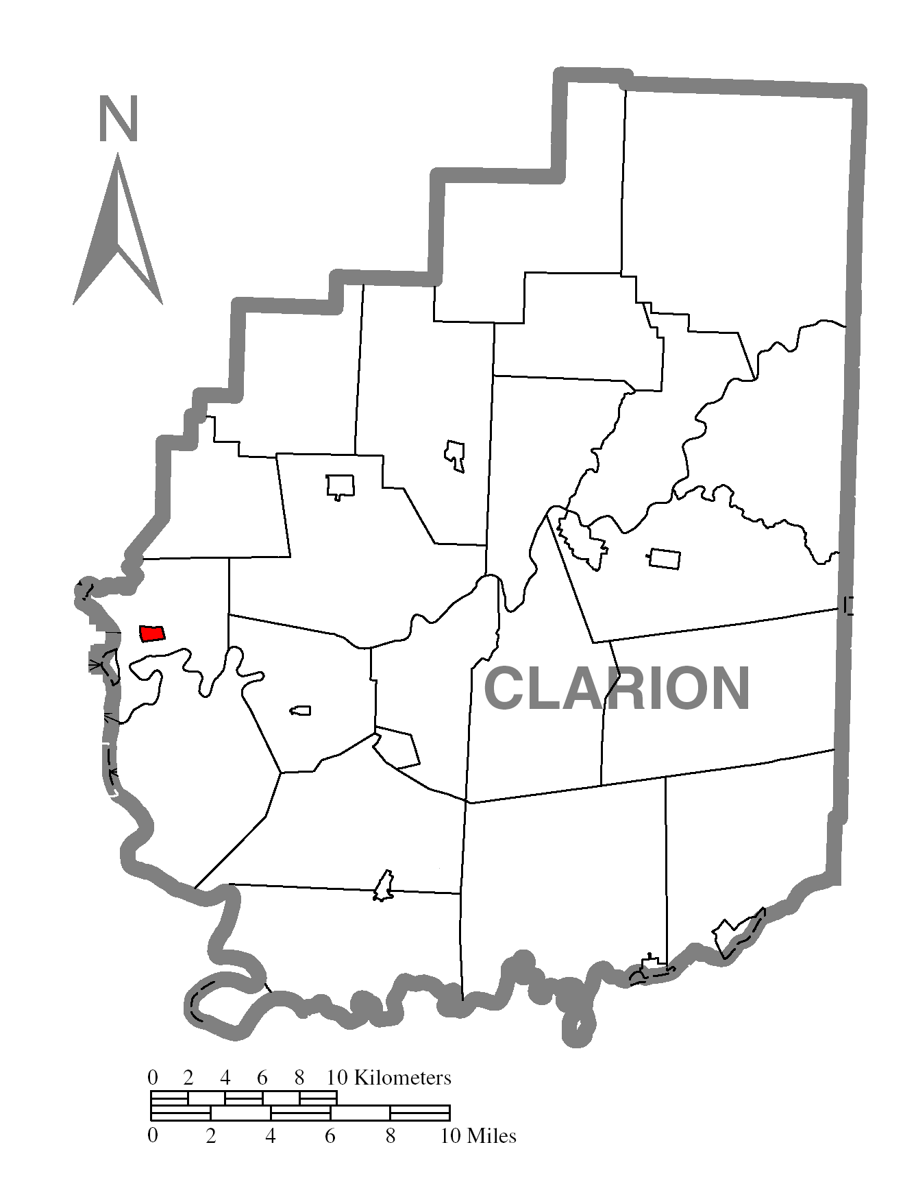 A map of Clarion County showing St. Petersburg, Pennsylvania (alternate) highlighted on the map.